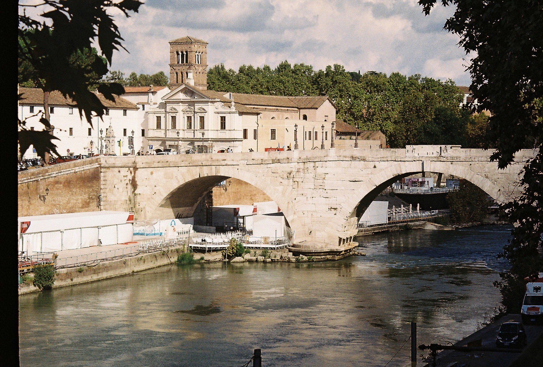 Pons Cestius